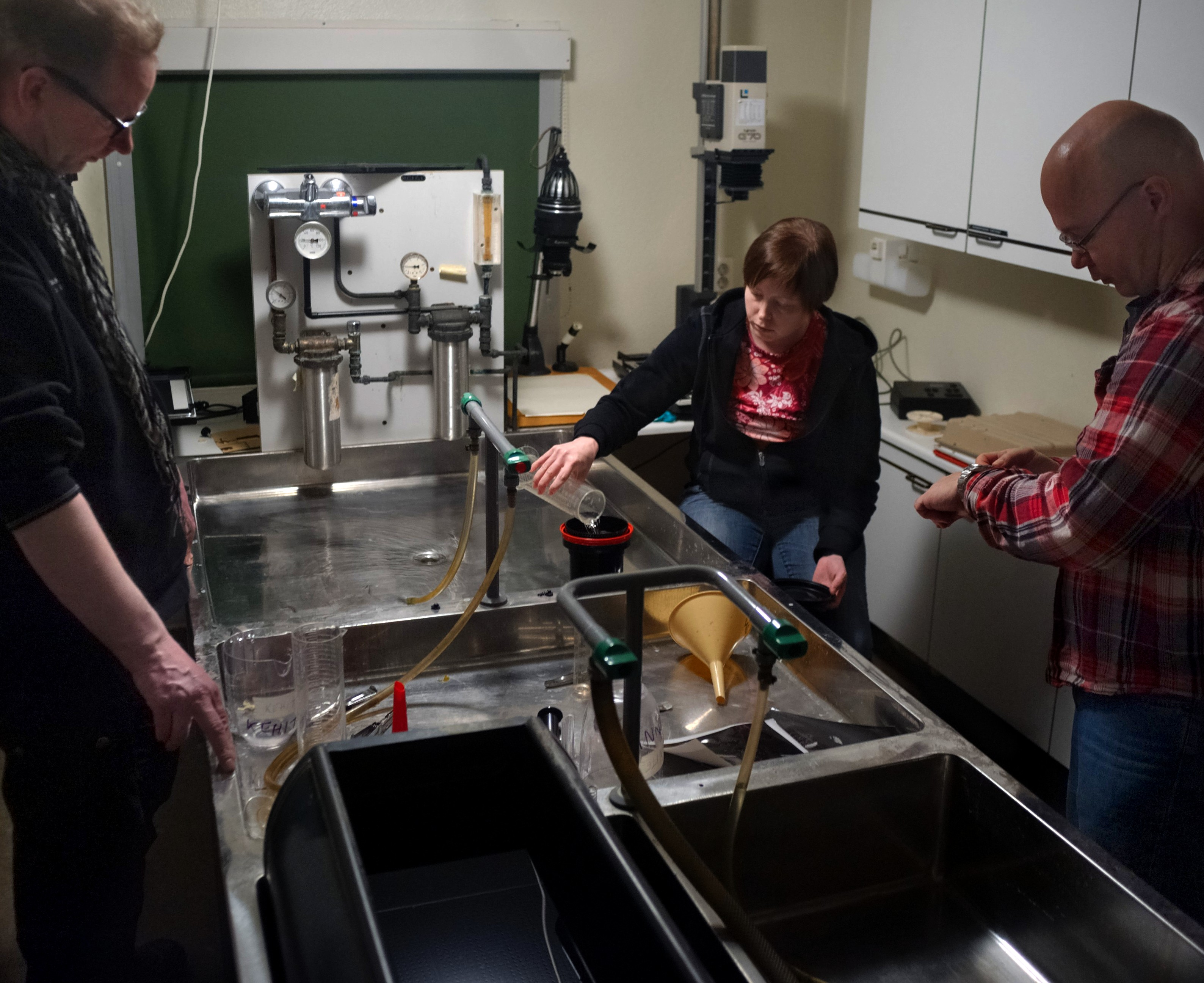 Professional Dark Room in Lauritsala, Lappeenranta, Finland